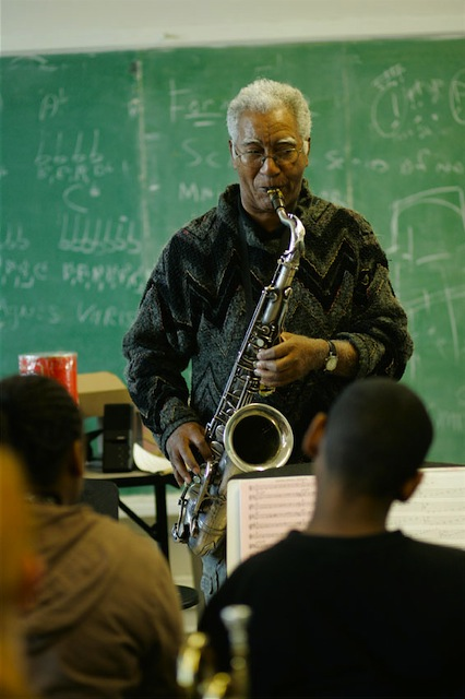 Kidd Jordan playing saxophone at Luscher School, New Orleans.